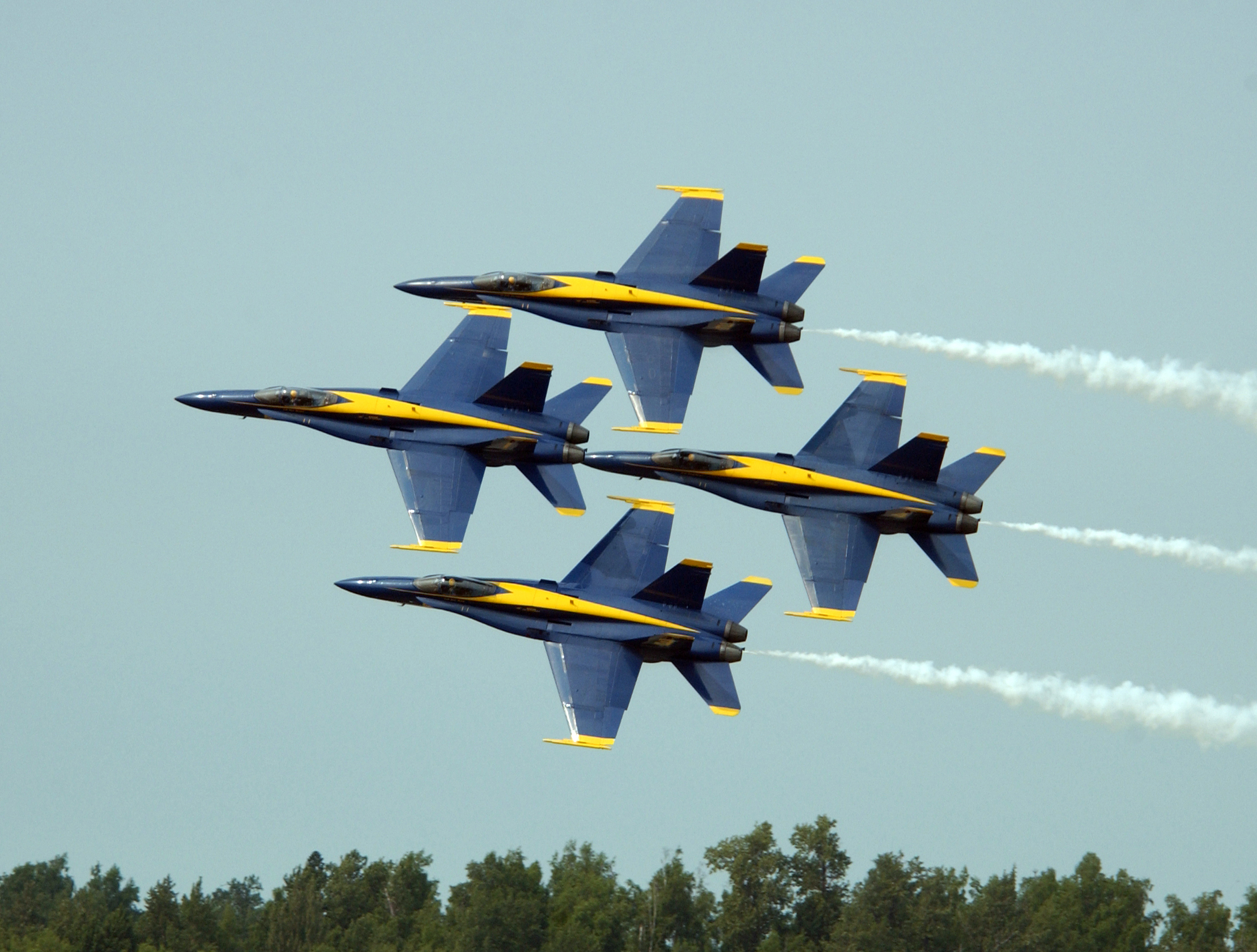 Elmendorf Air Force Base, Alaska (June 27, 2004) - The U.S. Navy flight demonstration team, the "Blue Angels," Diamond Formation completes a 360 degree turn during the Arctic Thunder Air Show at Elmendorf Air Force Base, Alaska. The Blue Angels fly the F/A-18A Hornet, performing approximately 30 maneuvers during the aerial demonstration lasting over an hour. U.S. Navy photo by Photographer’s Mate 2nd Class Ryan J. Courtade (RELEASED)